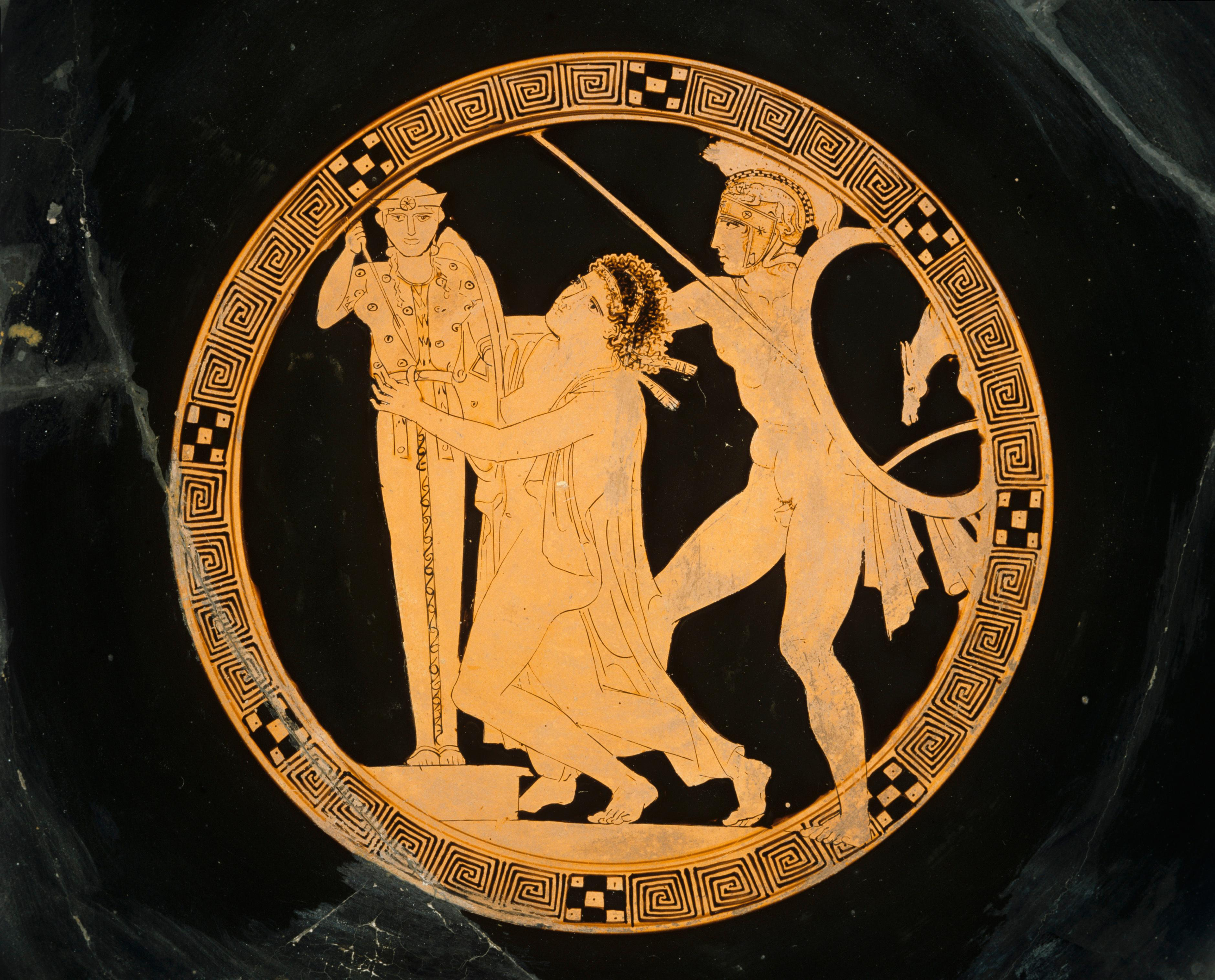 Culture Attic Title Ajax and Cassandra interior Work Type red figure cup Date around 440-430 BCE Material ceramic Measurements 11.7 x 39.4 x 32.6 cm